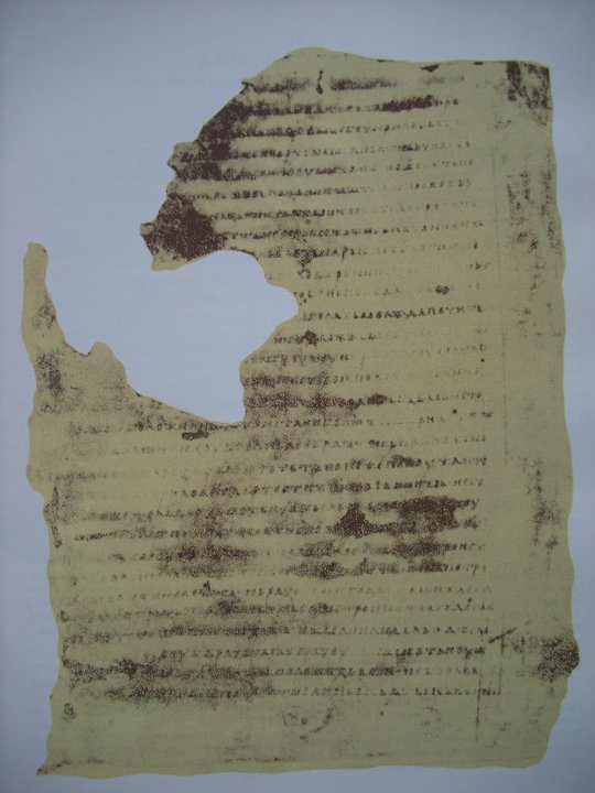 Macedonian Cyrillic Fragment